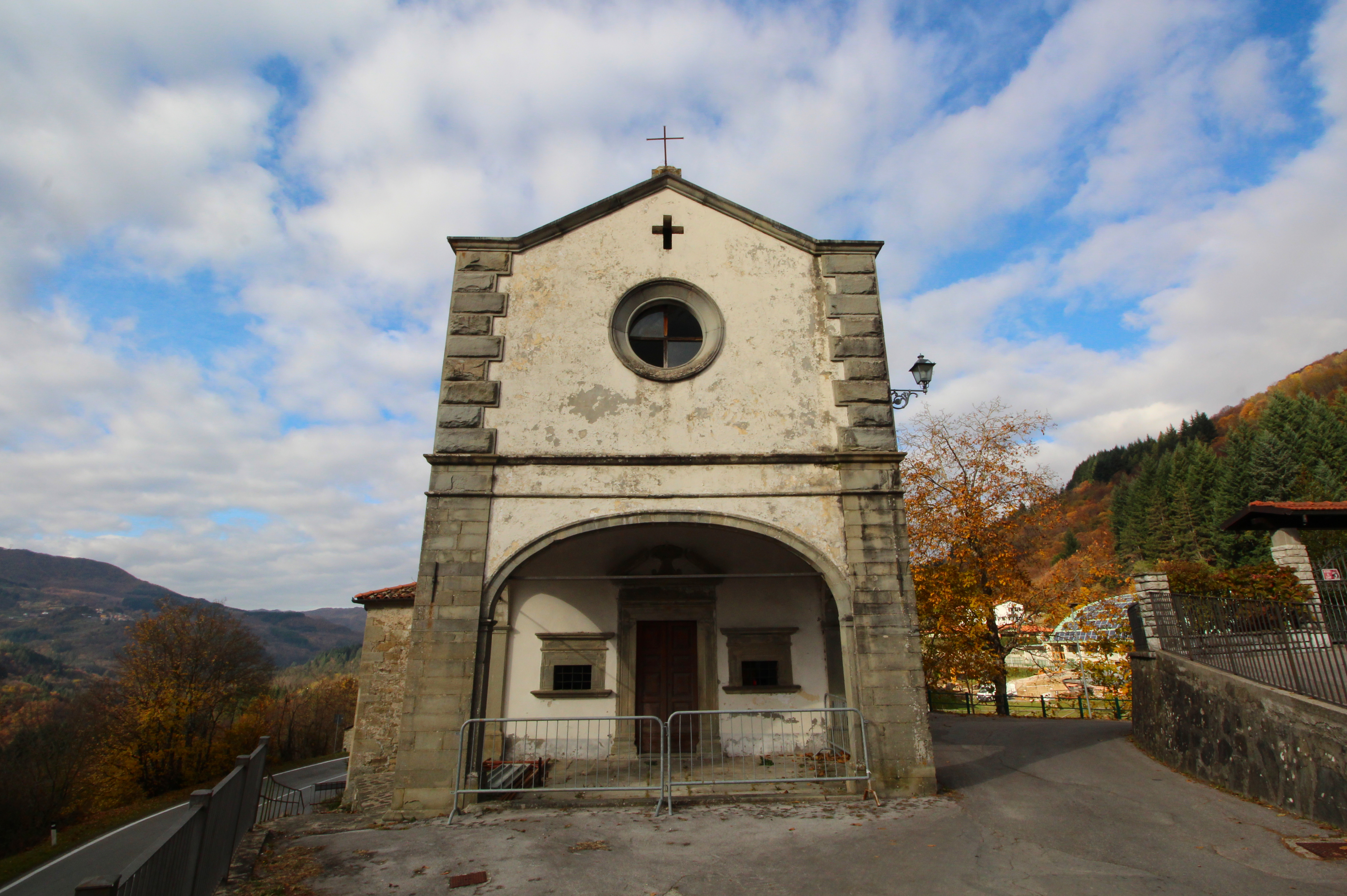 Church Sant'Antonio, San Romano in Garfagnana, Province of Lucca, Tuscany, Italy